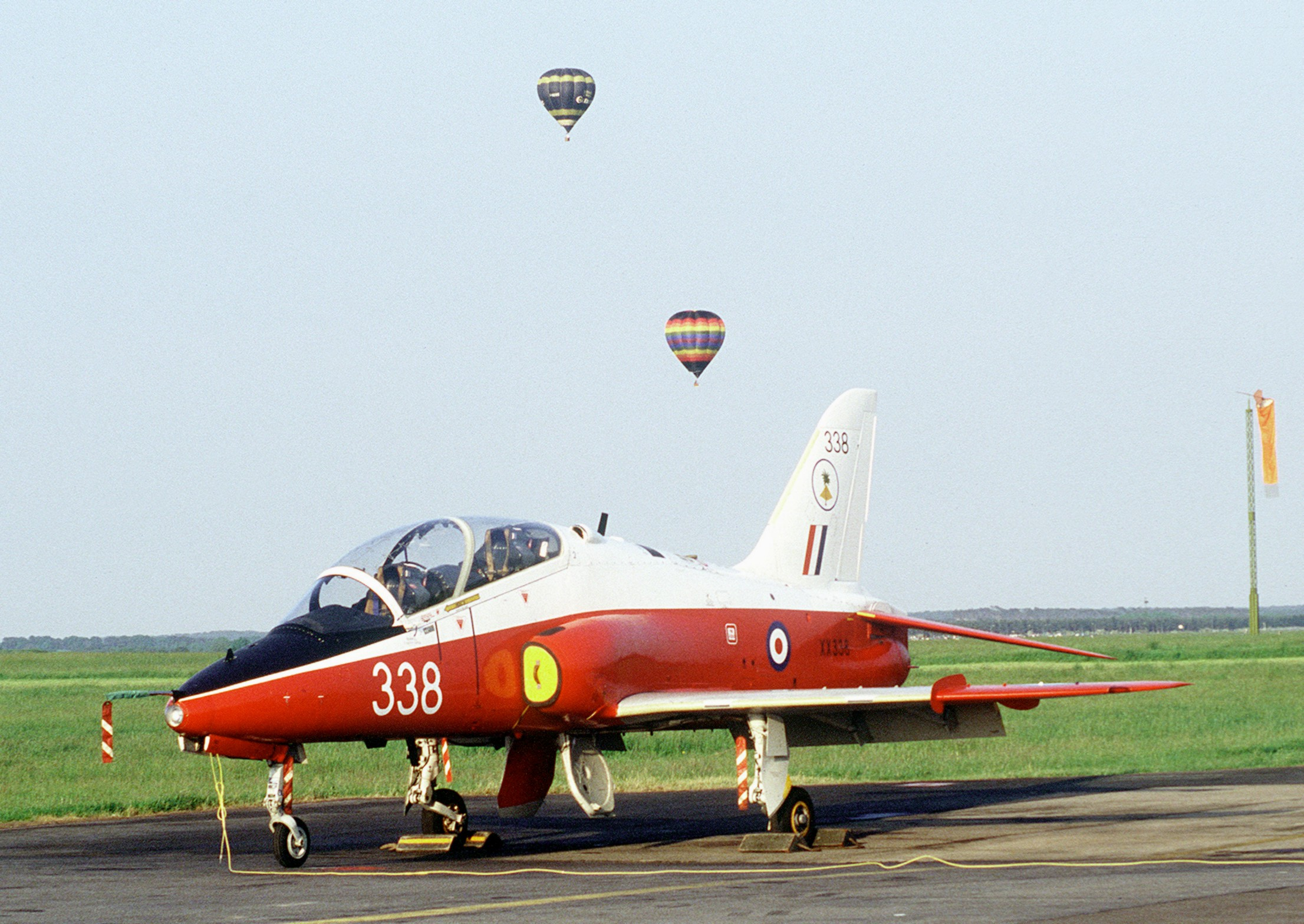 A Royal Air Force BAe Hawk T.1 aircraft (s/n XX338, cn 187/312162) from No.4 Flying Training School parked on the flight line during "Air Fete '84" at RAF Mildenhall, Suffolk (UK), 9 June 1984.